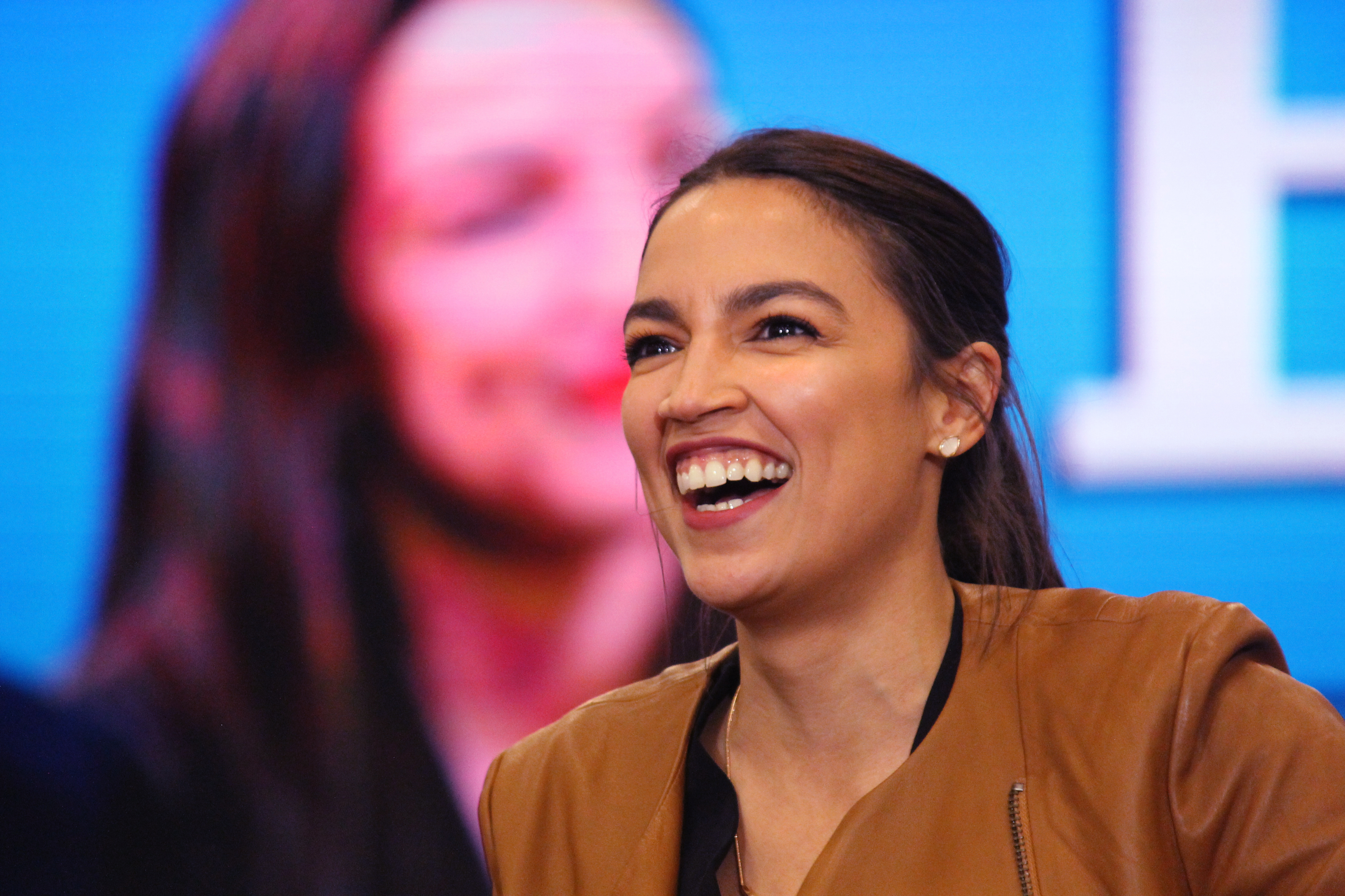 Rep. Alexandria Ocasio-Cortez speaking to attendees at a rally for Bernie Sanders in Council Bluffs, Iowa. J. if used elsewhere.